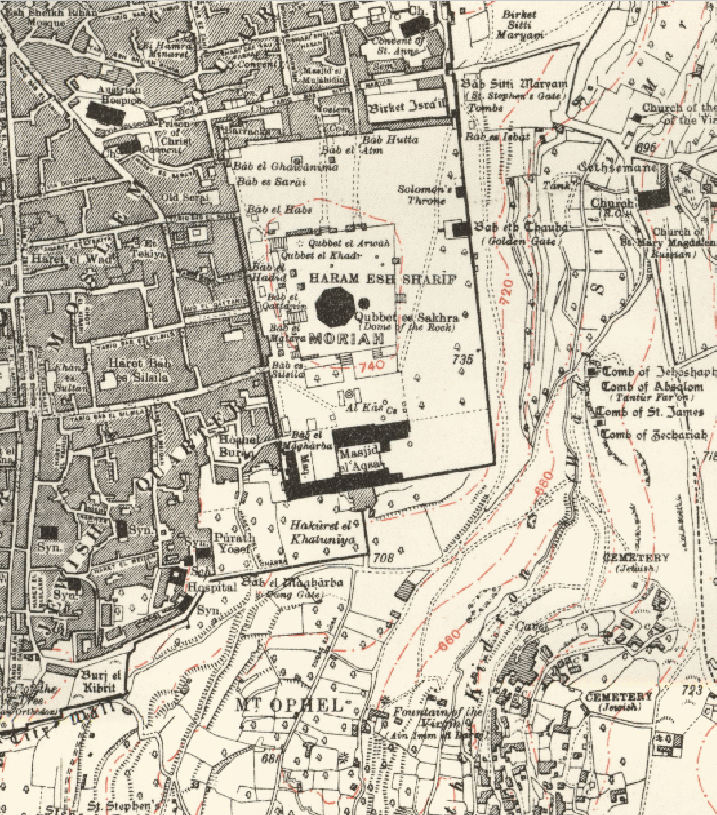 Height 743 section of Jerusalem map (1925) showing location of Mount Zion according to Jewish sources, also known as Mount Moriah.